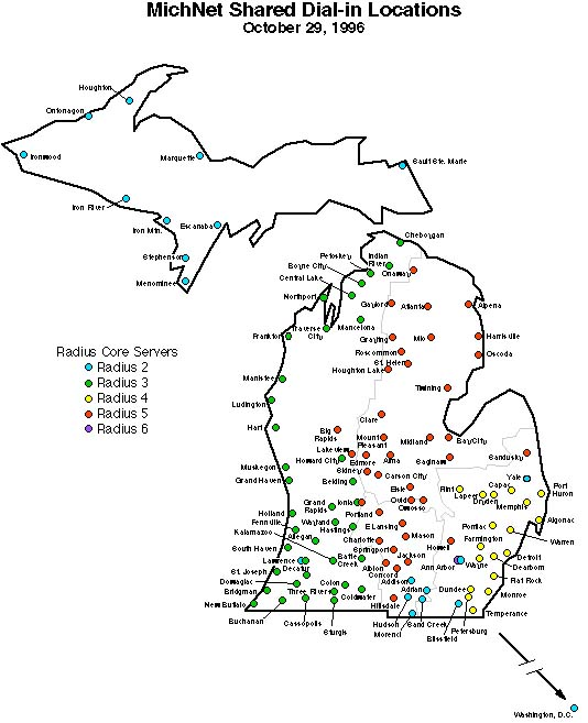 October 1996 map showing the MichNet shared dial-in locations operated by the Merit Network, Inc. in Michigan